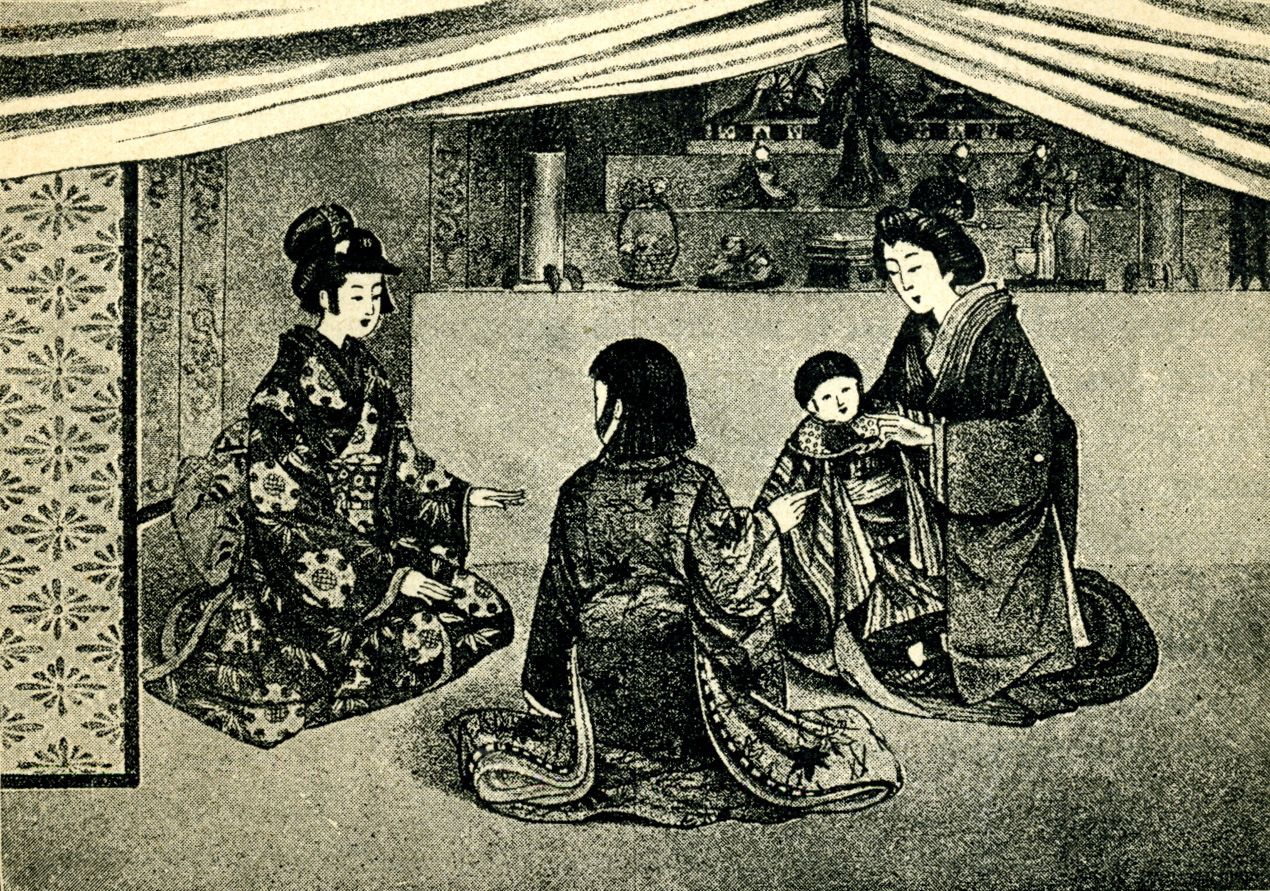 Japanese at home. Image from the book "Japan And Japanese" (1902). Page 71. Hinamatsuri (雛祭り), the Girls' Day festival